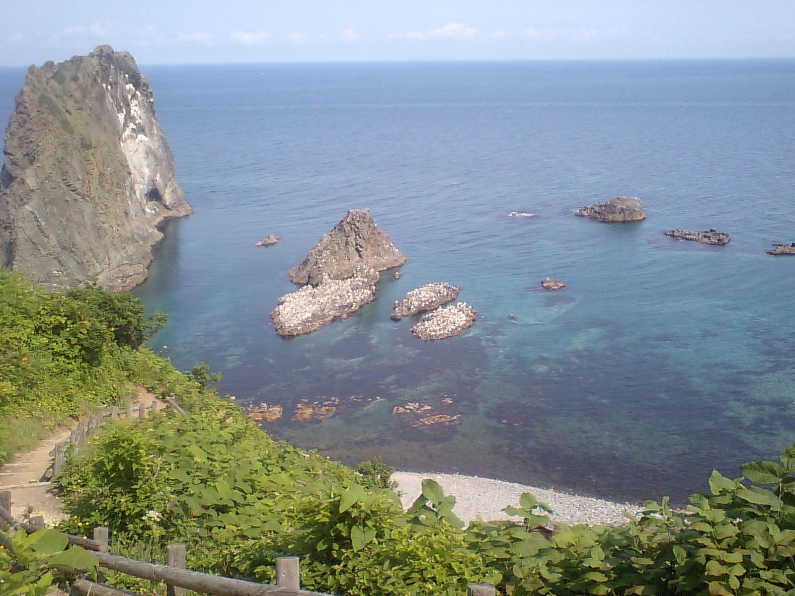 Shimamui coast at Shakotan, Hokkaido, Japan.